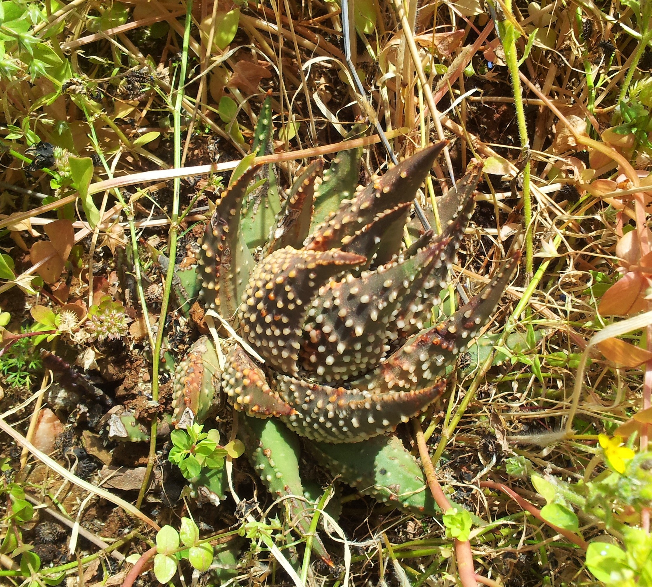 Haworthia pumila in habitat - Worcester South Africa